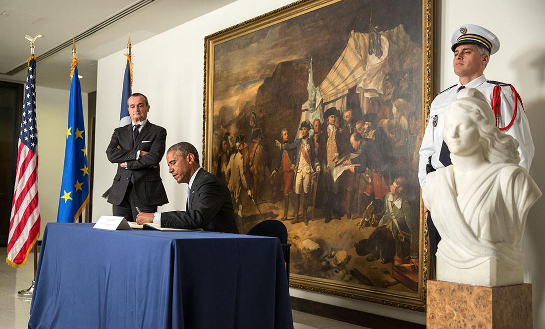 President Barack Obama of the United States signs a book of condolences at the French Embassy in Washington, D.C. for the victims of the murders at the Charlie Hebdo office in Paris which took place on 7 January 2015.